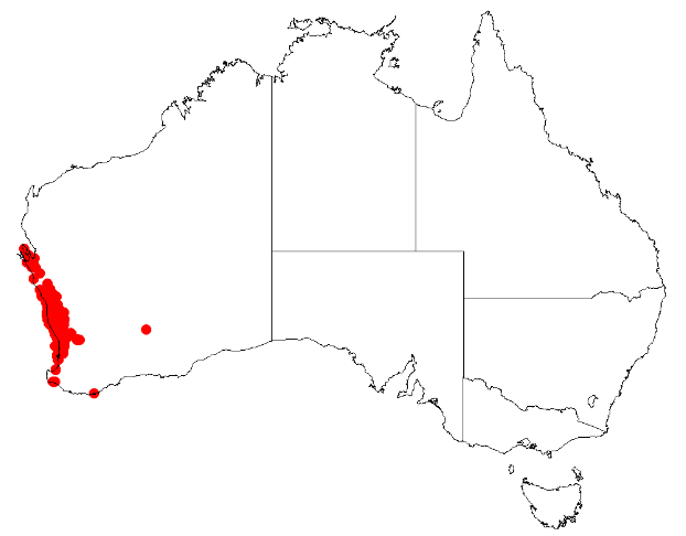 Conostylis candicans occurrence data from AVH on 12 May 2017